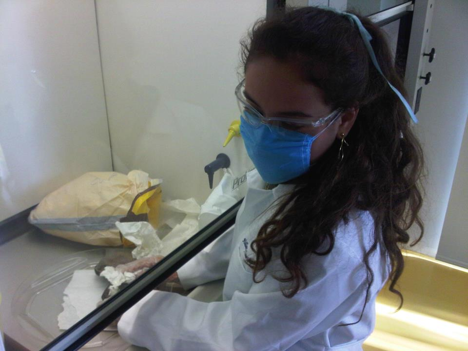 A medical student working at the laboratories of ITESM CCM during the PreHealth course.